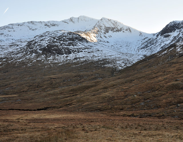 Looking across the watershed to Spidean Mialach At this point the water flows west to Loch Loyne. The lowest point on the ridge joining Munros Gleouraich and Spidean Mialach can be seen on the horizon.